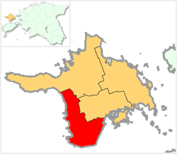 Location map of Emmaste Commune, Estonia. This image was created by Senzeichi.